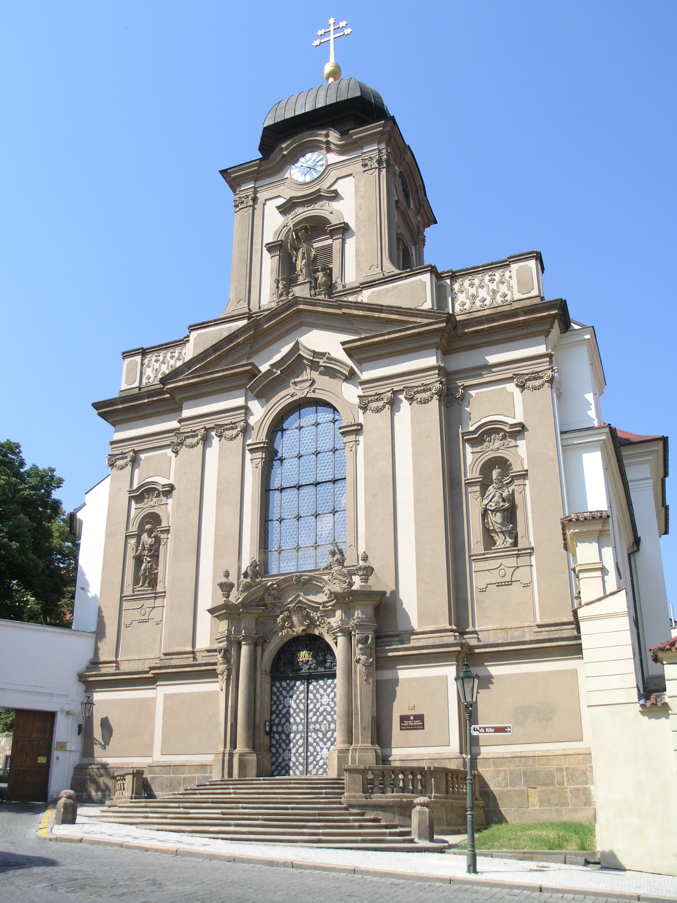 Prague, Hradčany - Military church of St. Jan Nepomuk